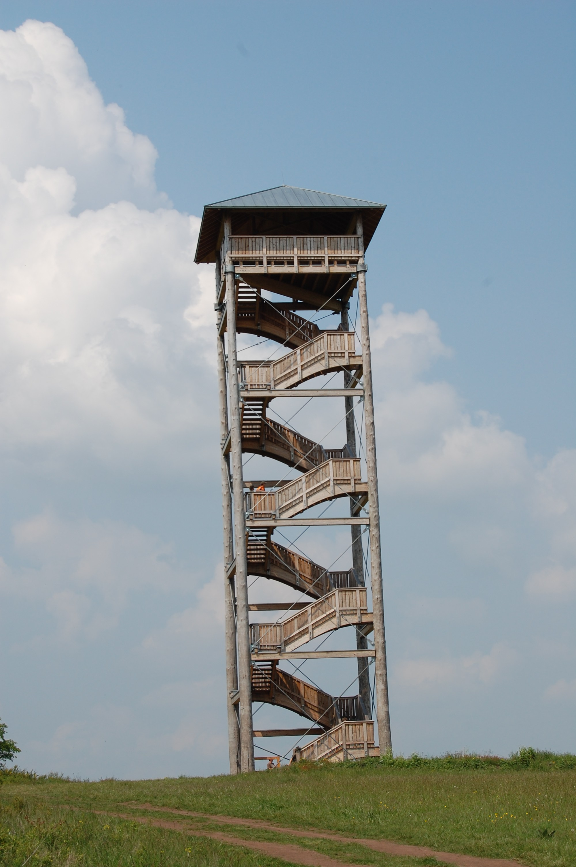 The Heimberg tower near Schloßböckelhiem, Naheland, Germany